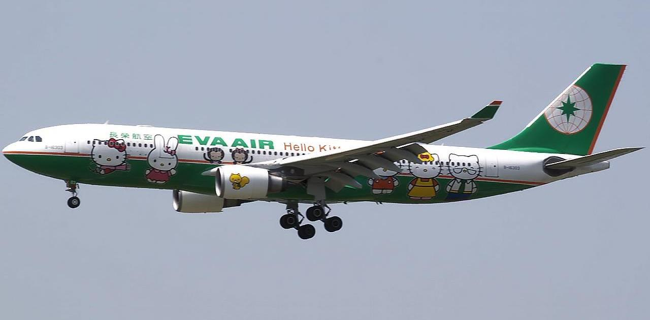 EVA A330